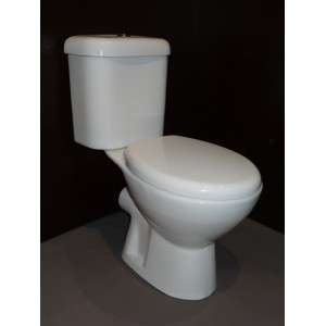 White wc